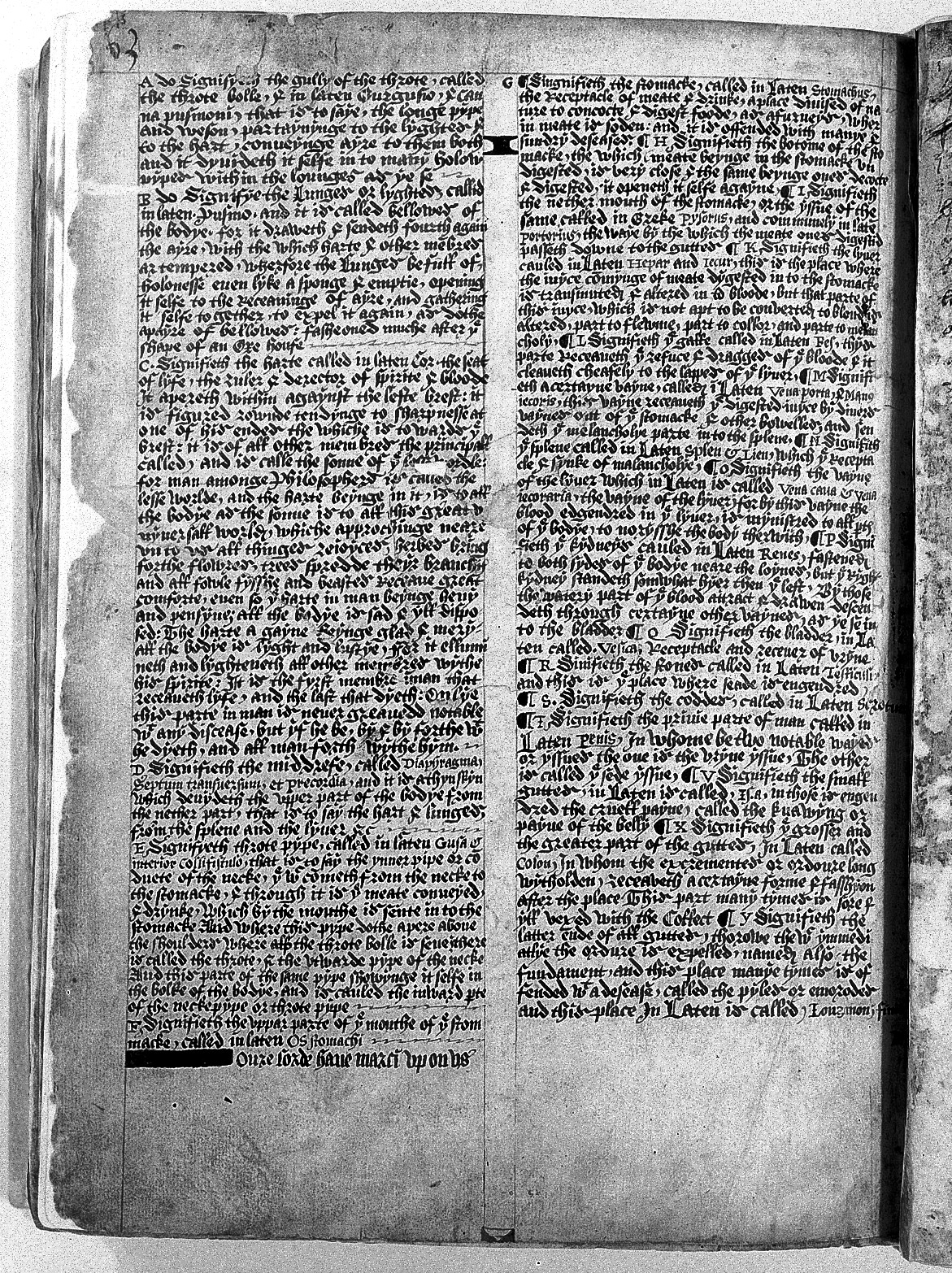 Chirurgia is preceded by a work on Anatomy based on Mondeville and Lanfranc of Milan, an incomplete and abridged English translation, anon., (English surgeon). Archives & Manuscripts Keywords: Henri de Mondeville